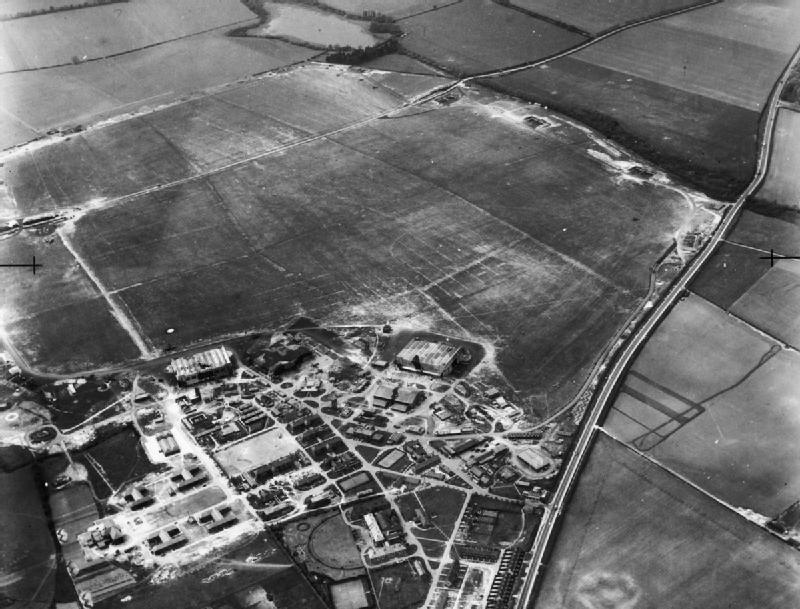 IWM caption : Oblique aerial view of RAF Wittering, Cambridgeshire, showing the technical and domestic sites and airfield looking west from a point over the A1. White Water Lake can be seen at top centre.